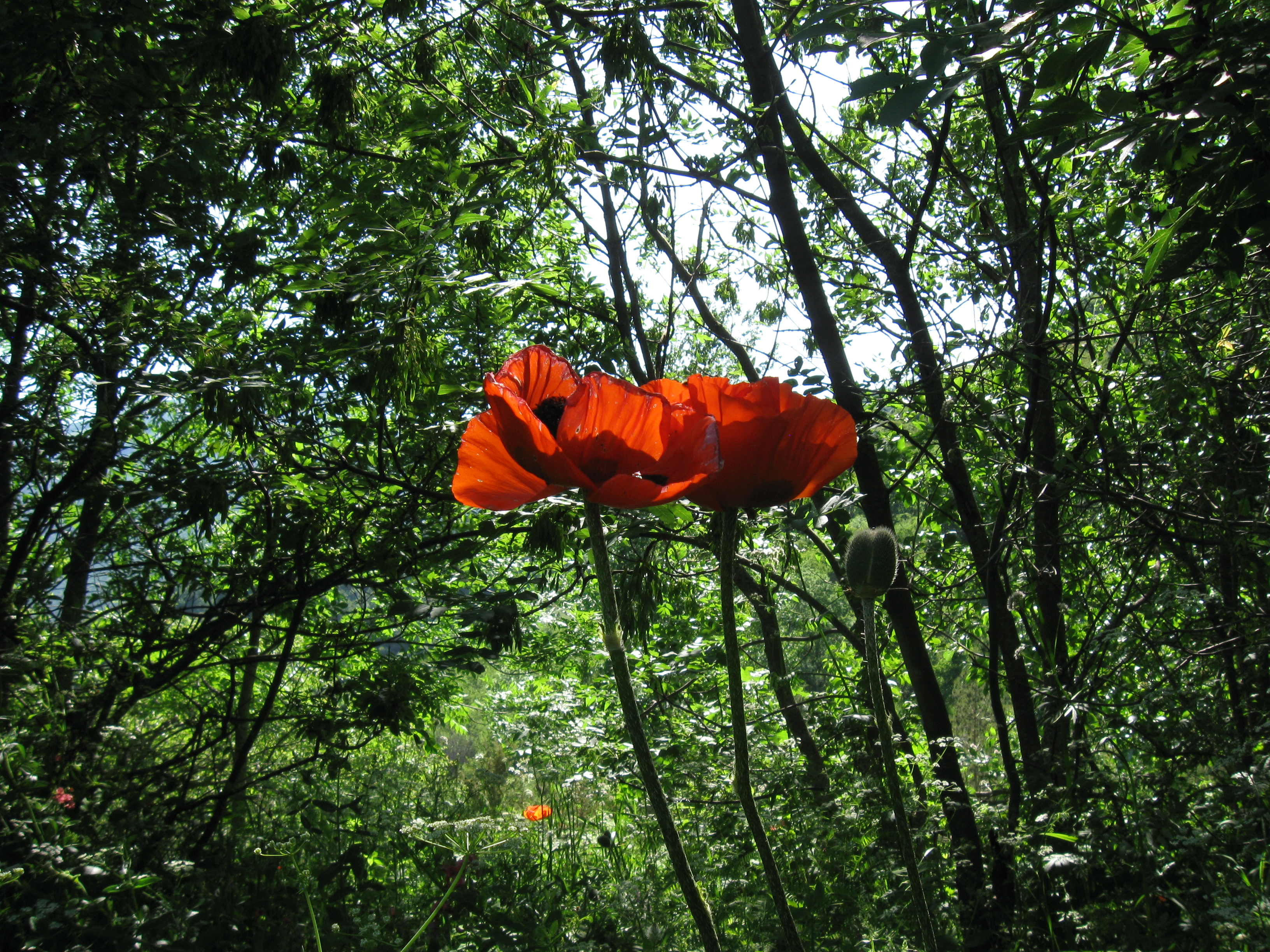 A poppy is a flowering plant in the subfamily Papaveroideae of the family Papaveraceae. Poppies are herbaceous plants, often grown for their colorful flowers.